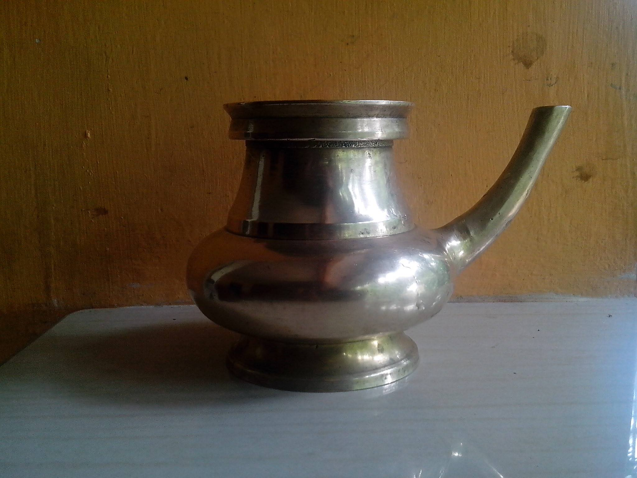 kunjimangalam kiNTi